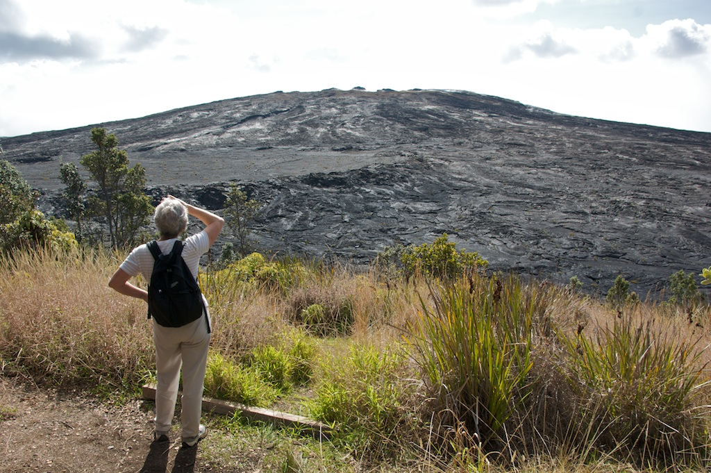 Mauna Ulu northern face seen from Pu'u Huluhulu.